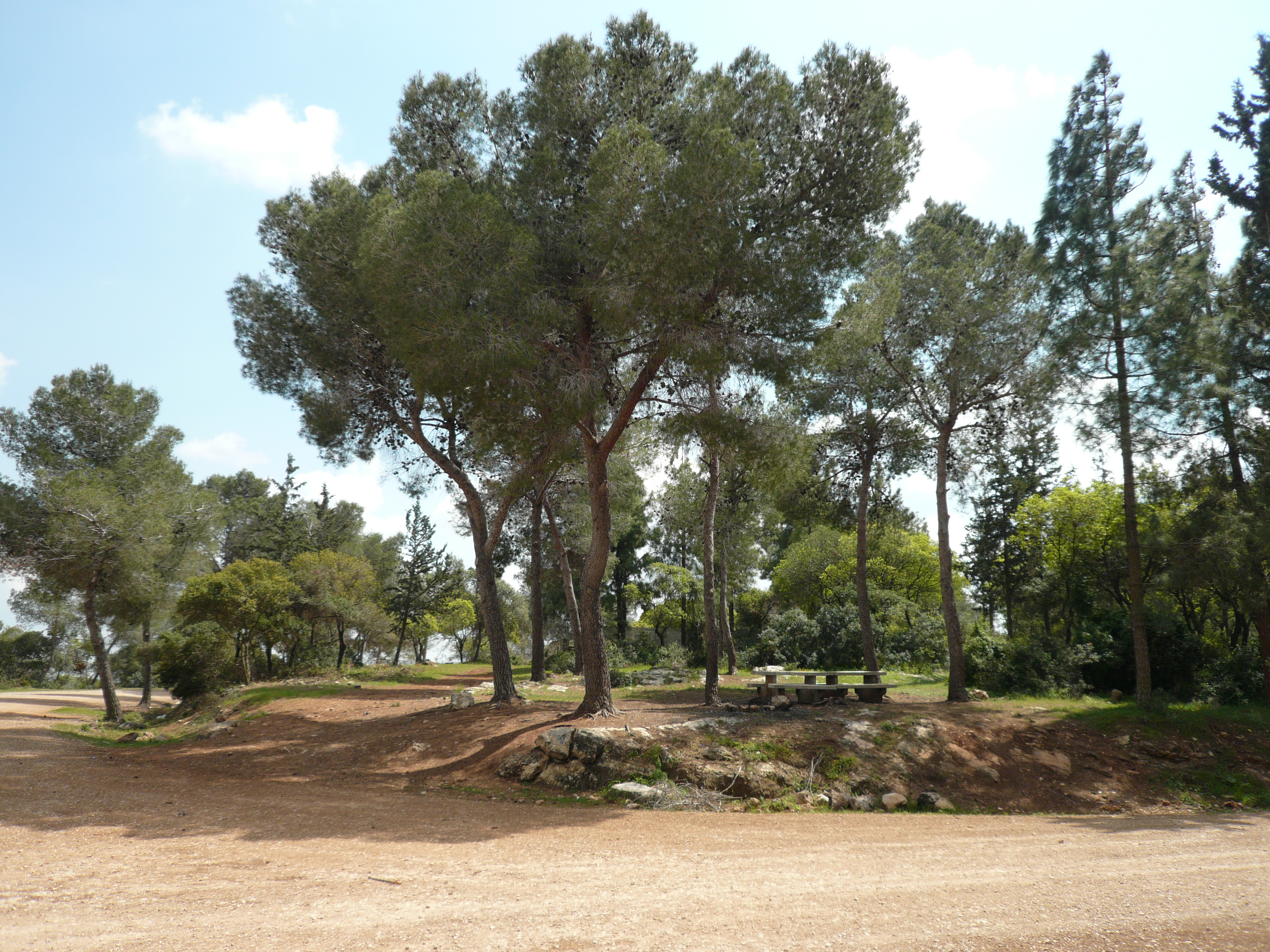 On the top of Har Dvora, mountain in Israel